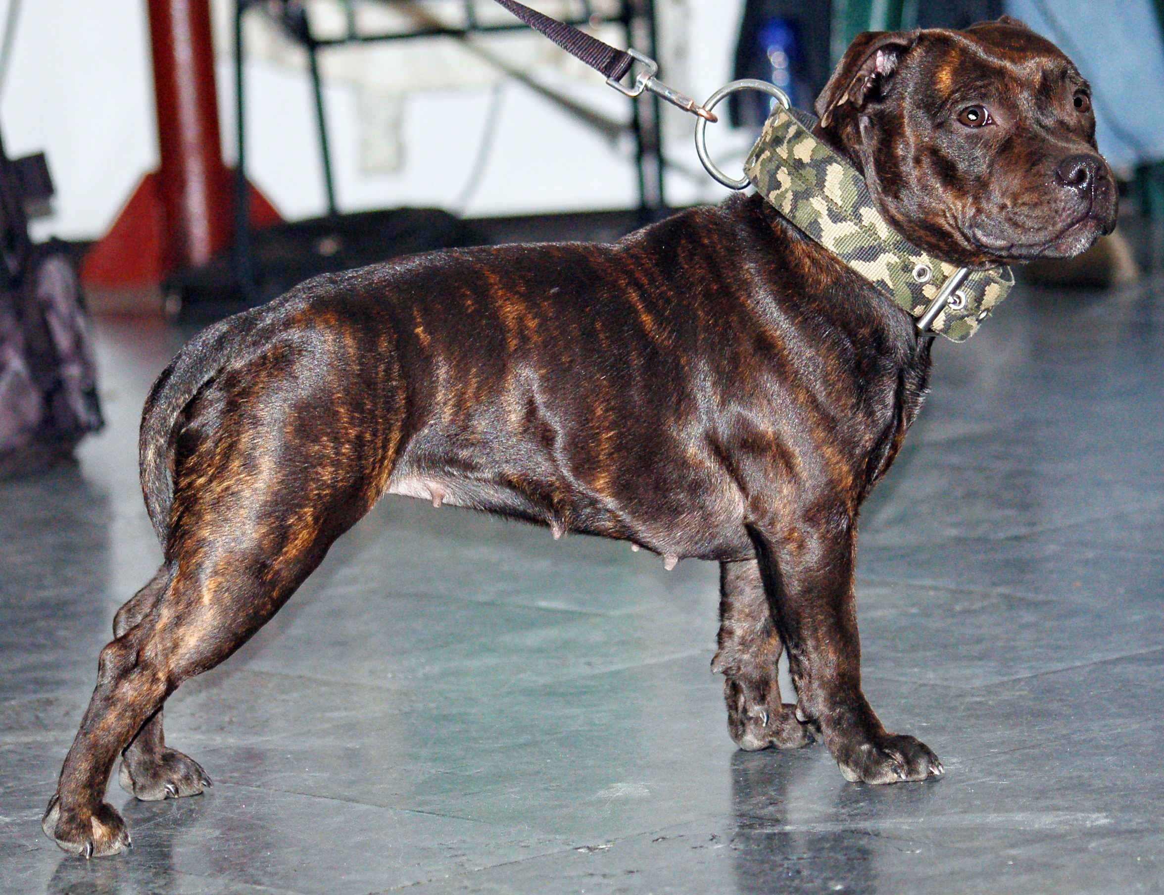 Staffordshire Bull Terrier during dogs show in Katowice, Poland